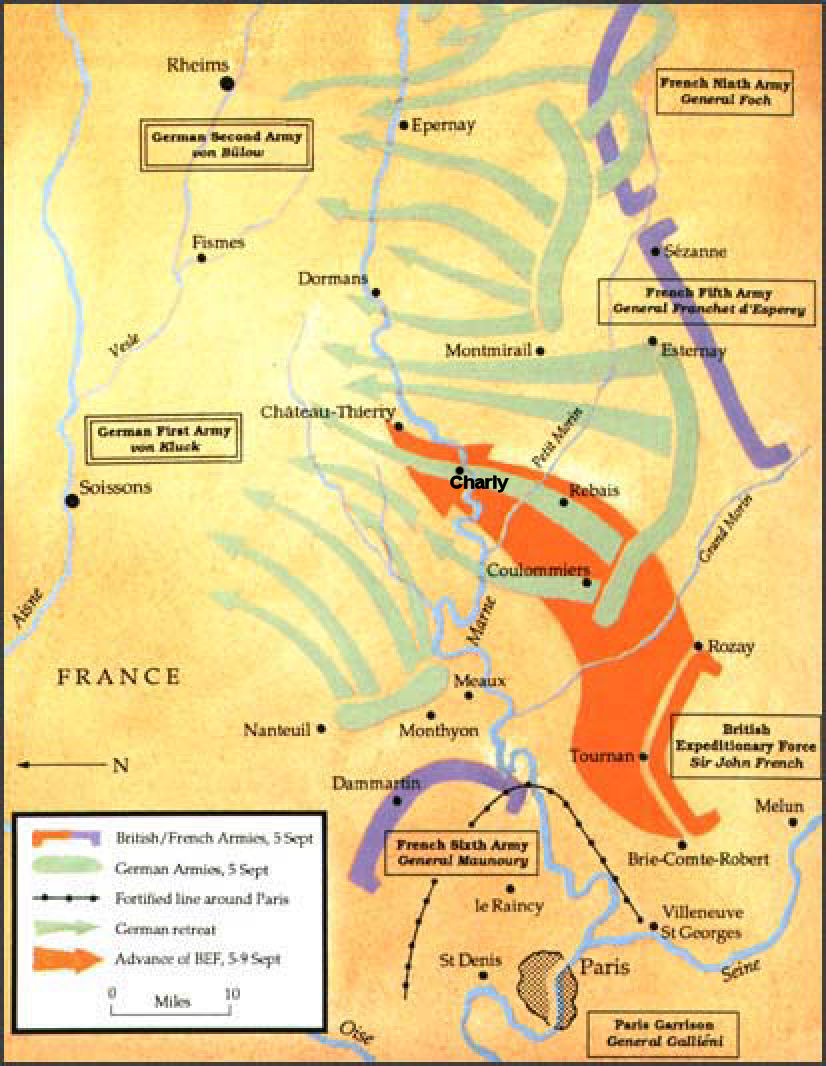 Map of the First battle of the Marne showing the British Expeditionary Force counter-attack and the town of Charly